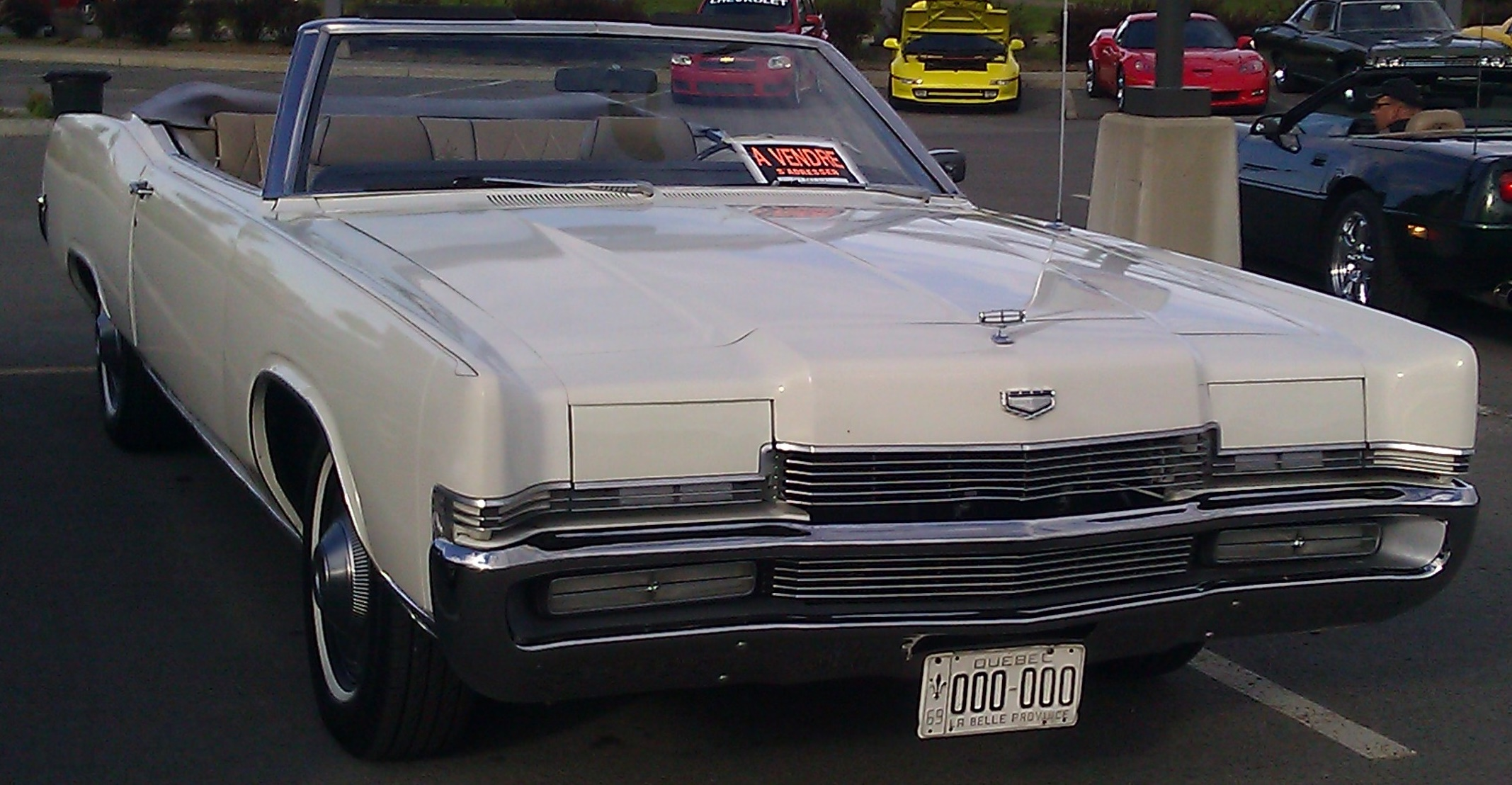 1969 Mercury Marquis photographed in Laval, Quebec, Canada at Les chauds vendredis.